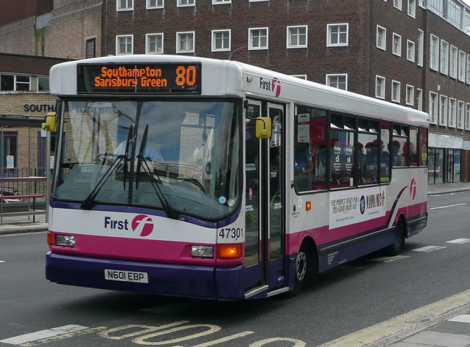 First Hampshire & Dorset's 47301 (N601 EBP), a Dennis Dart/UVG Urban Star, in Castle Way, Southampton, on route 80.